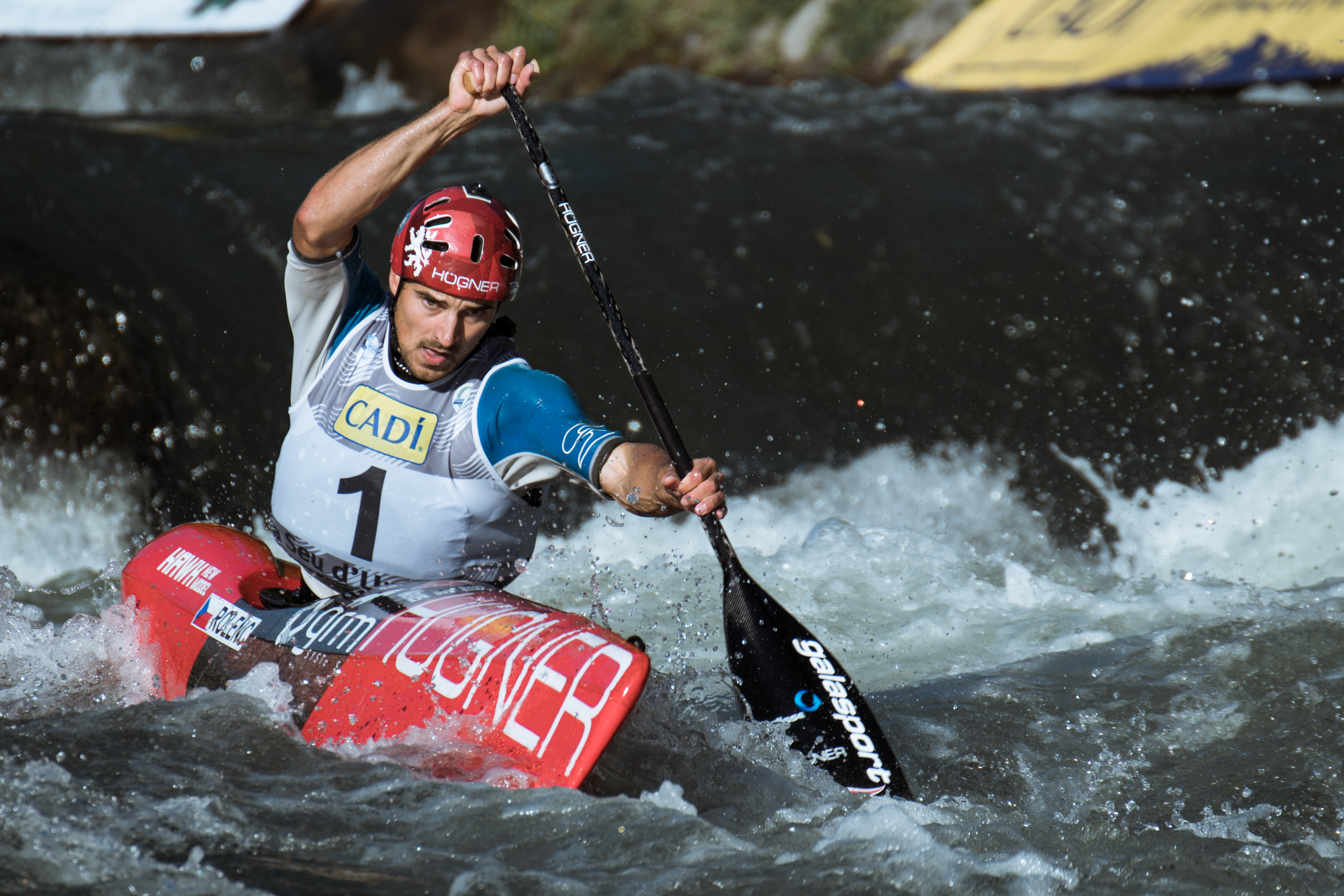 Ondřej Rolenc during the 2019 Canoe Wildwater World Championships in La Seu d'Urgell, Spain.